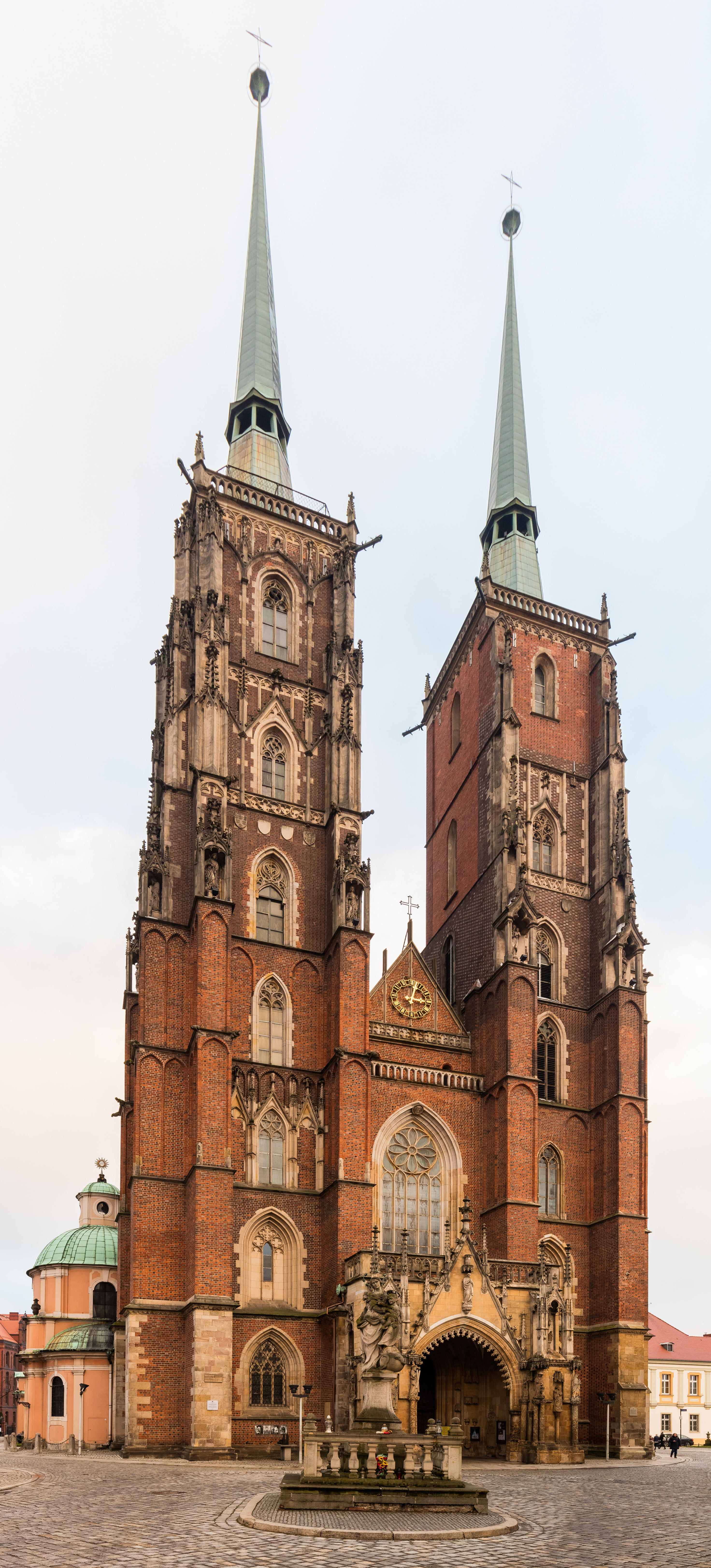 St. John Cathedral Church, Wrocław, Poland